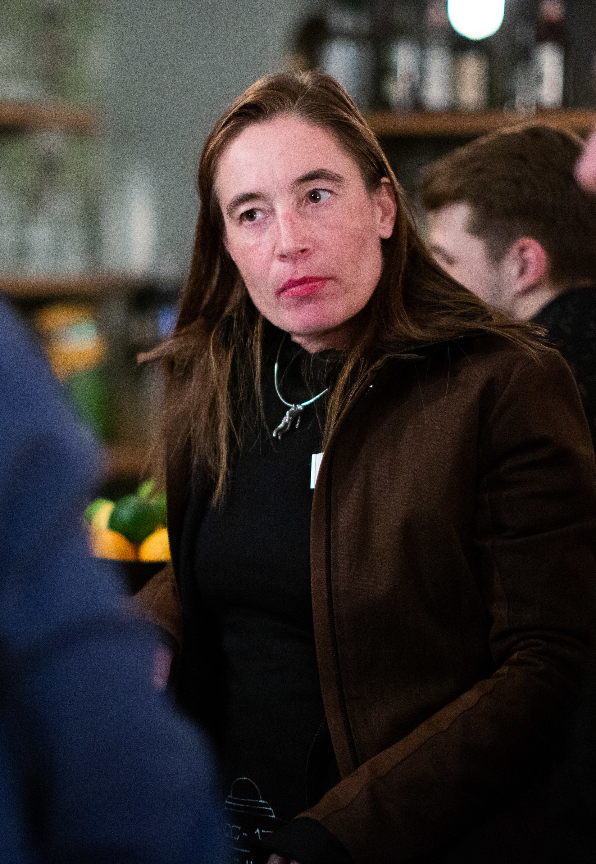 The Conjectural Futures Conference took place on November 5 and 6, 2018 in Berlin, Germany. It consisted of 2 days of foresight talks and workshops for strategists, foresighters, innovators and designers. The conference was organised by the Corporate Foresight Teams of Evonik and Deutsche Bahn. For